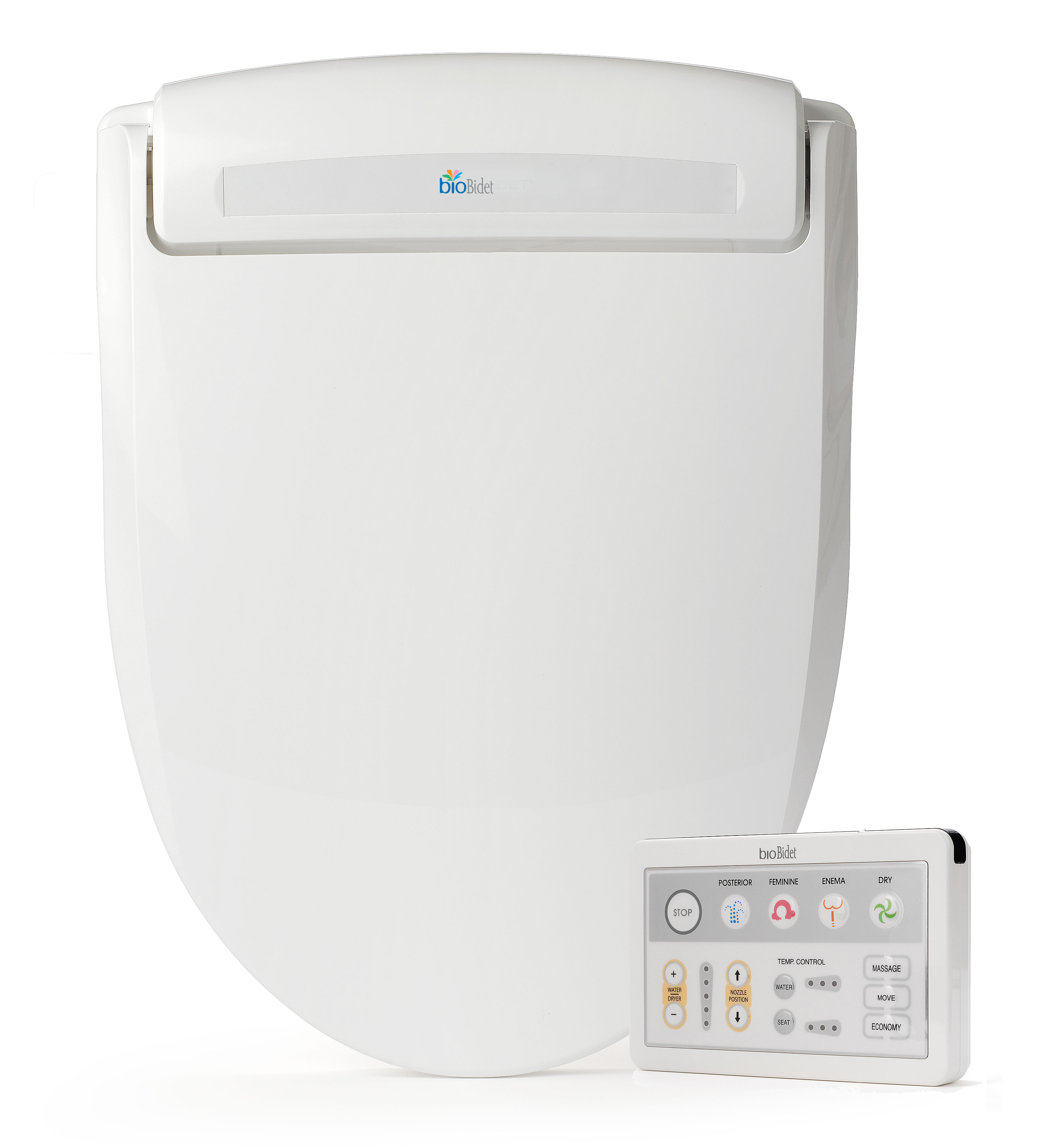 Advanced Bidet Toilet Seat